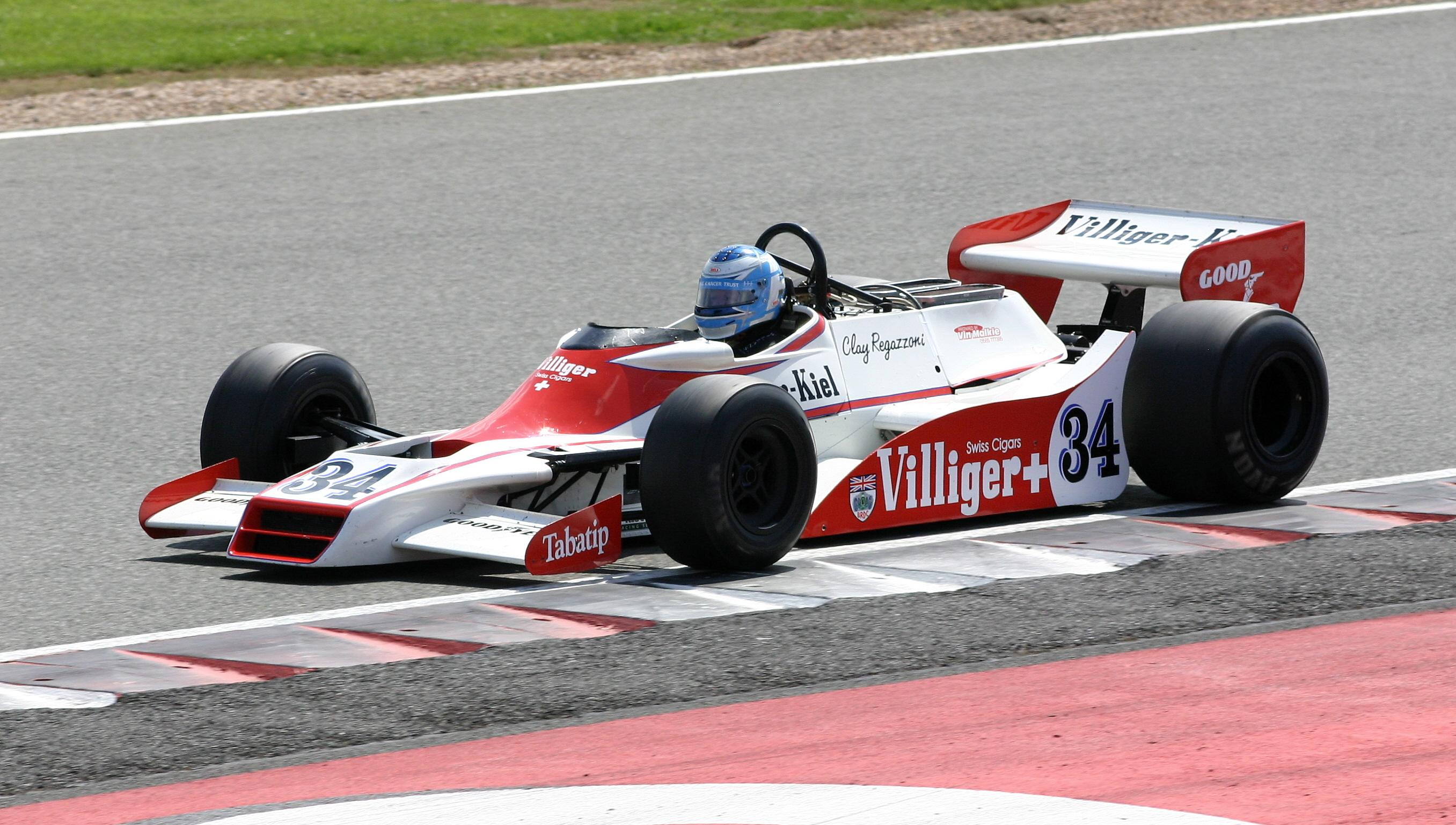 The Shadow DN9 at the 2008 Silverstone Classic race meeting.